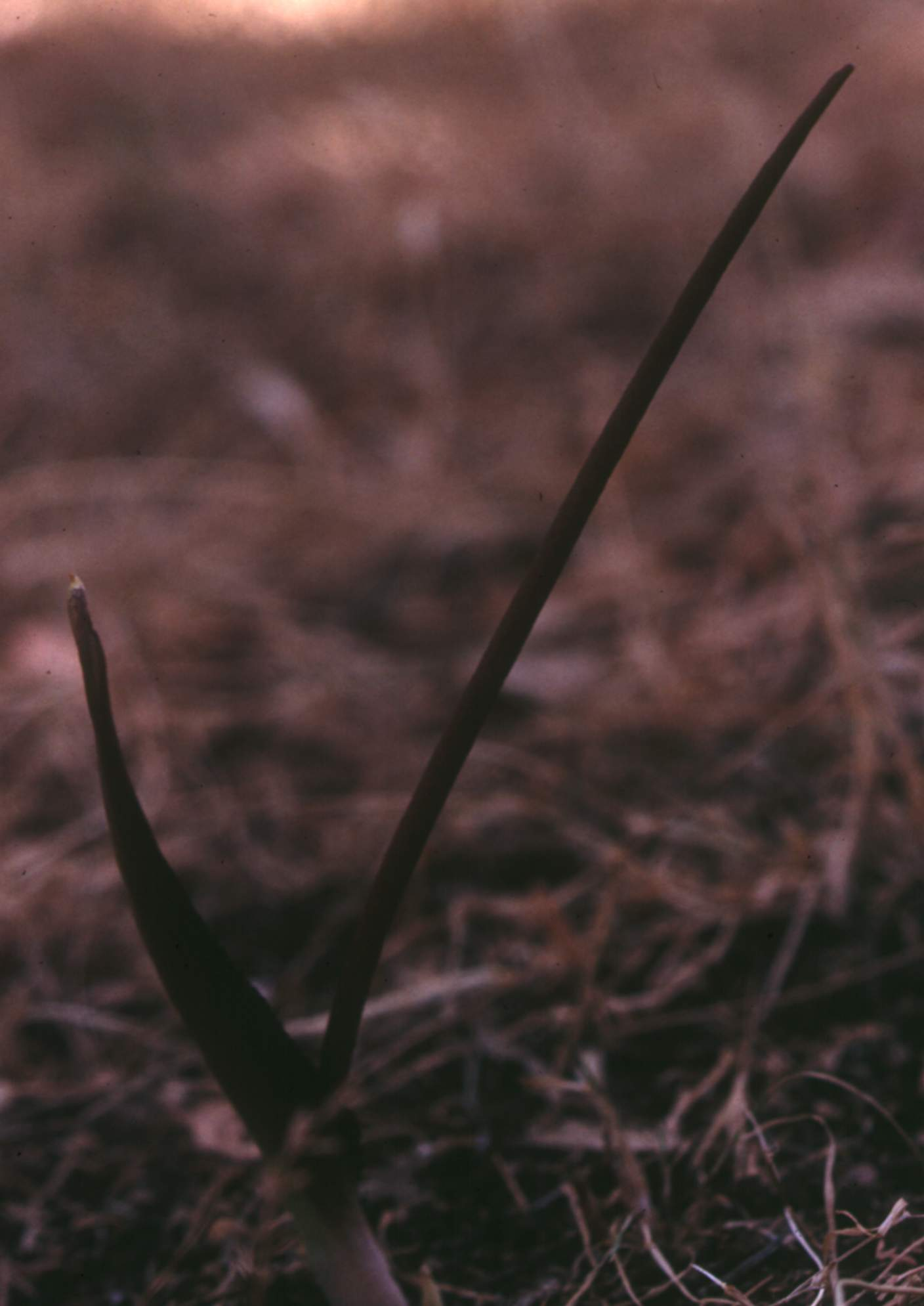 Sicily